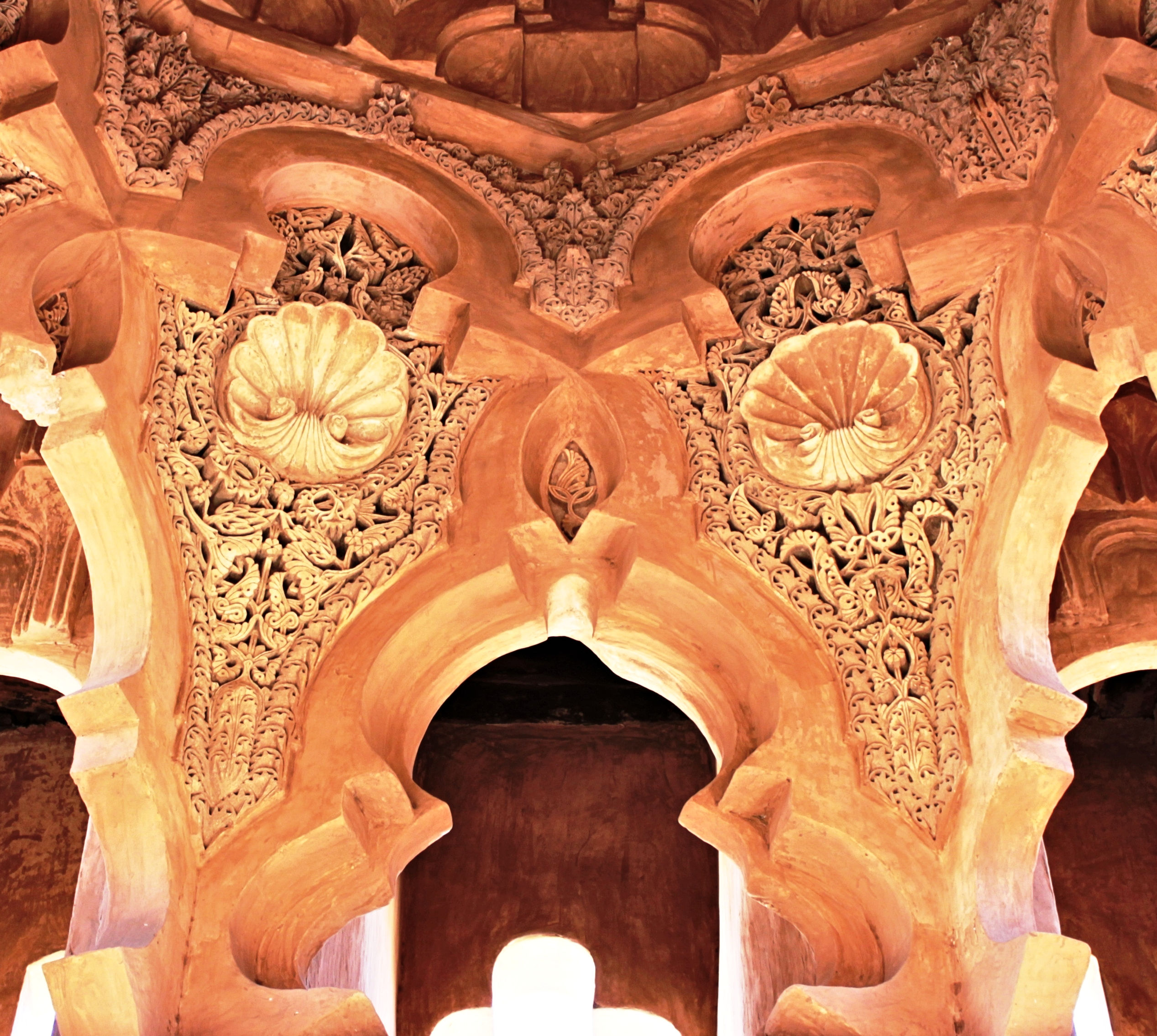 Close-up of the decoration inside the Almoravid Qubba.